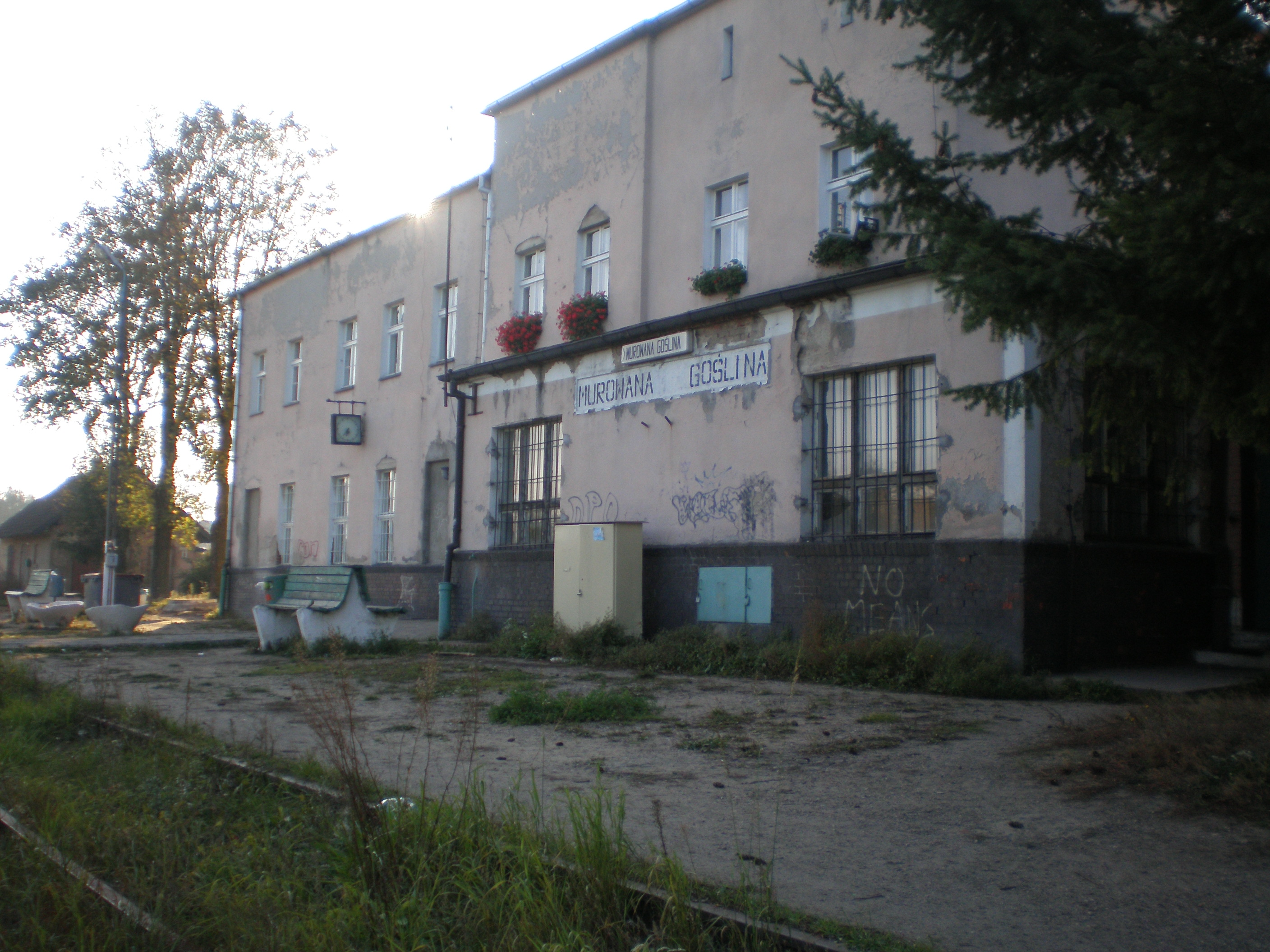 Murowana Goślina town.